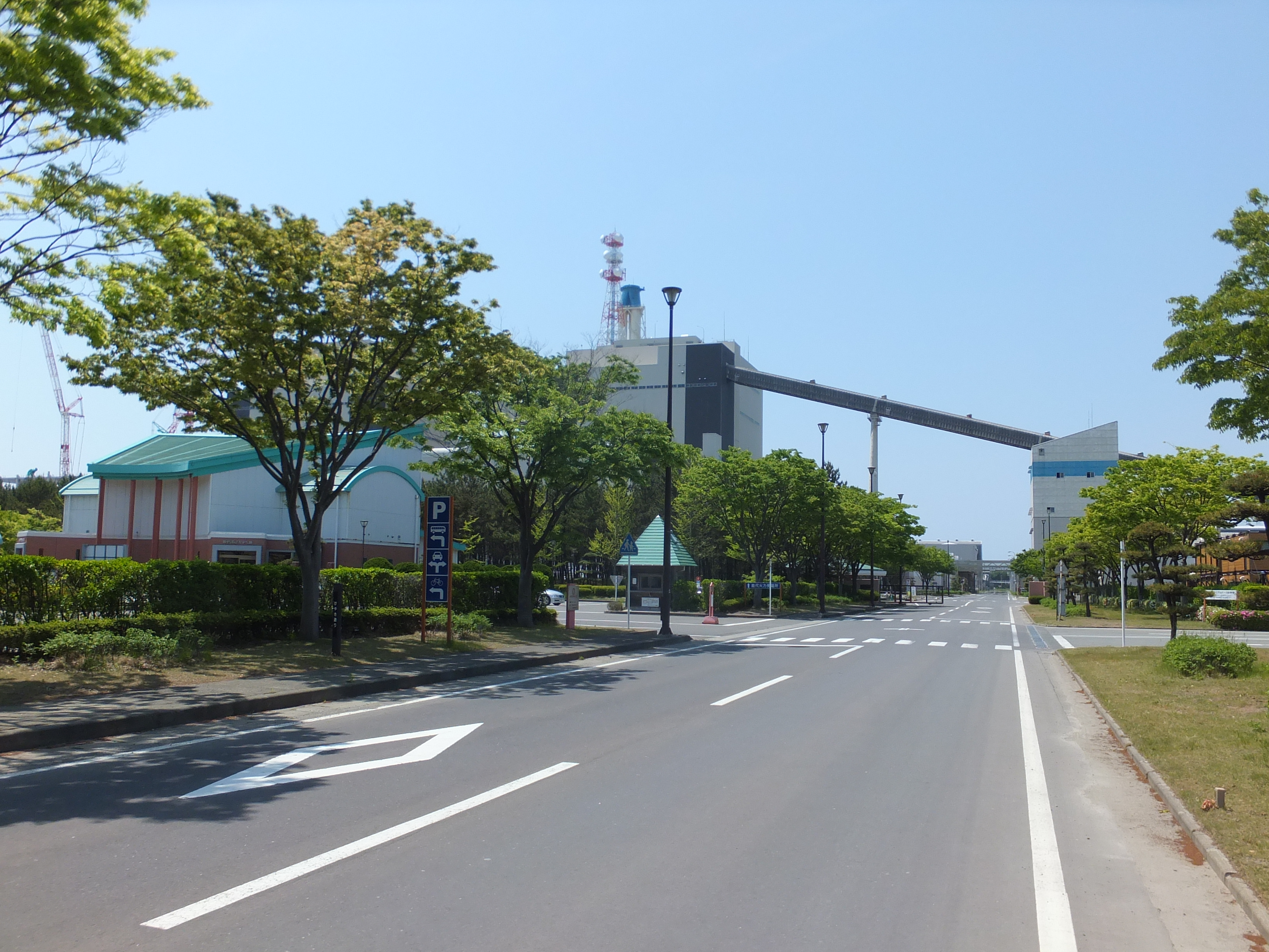 Noshiro Thermal Power Station operated by Tohoku EPCO, in Noshiro, Akita, Japan